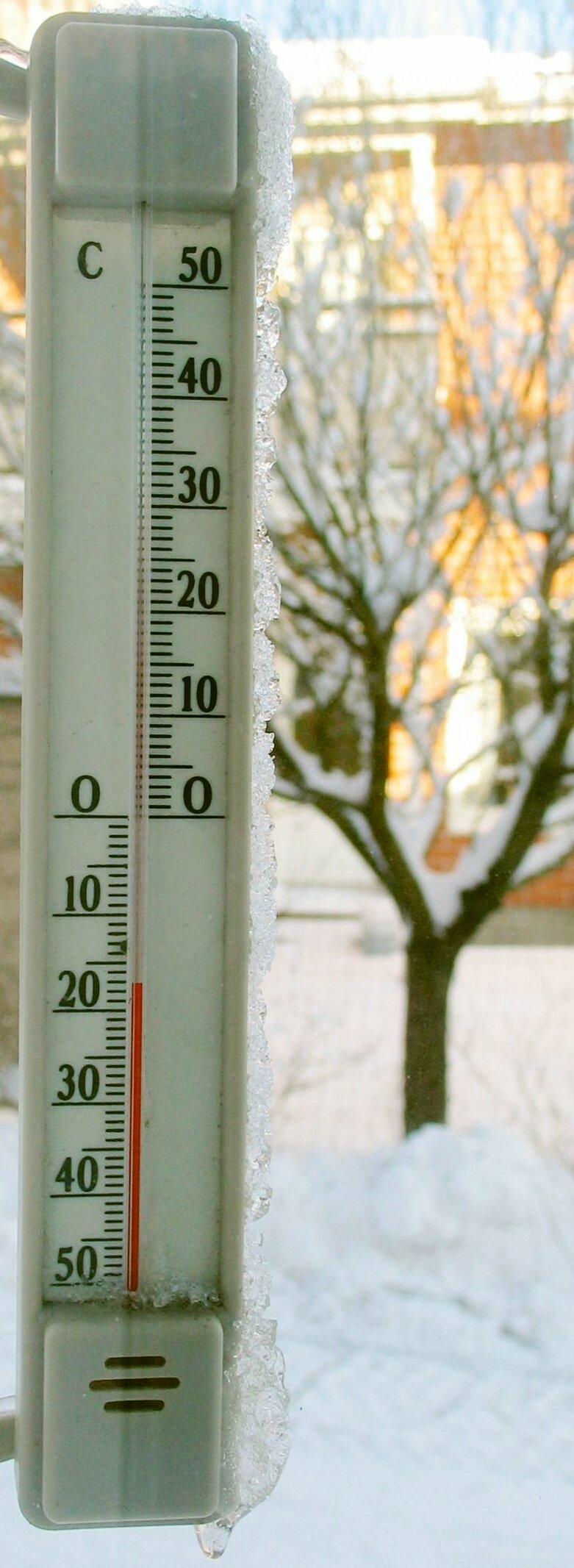 A thermometer showing −17°C.